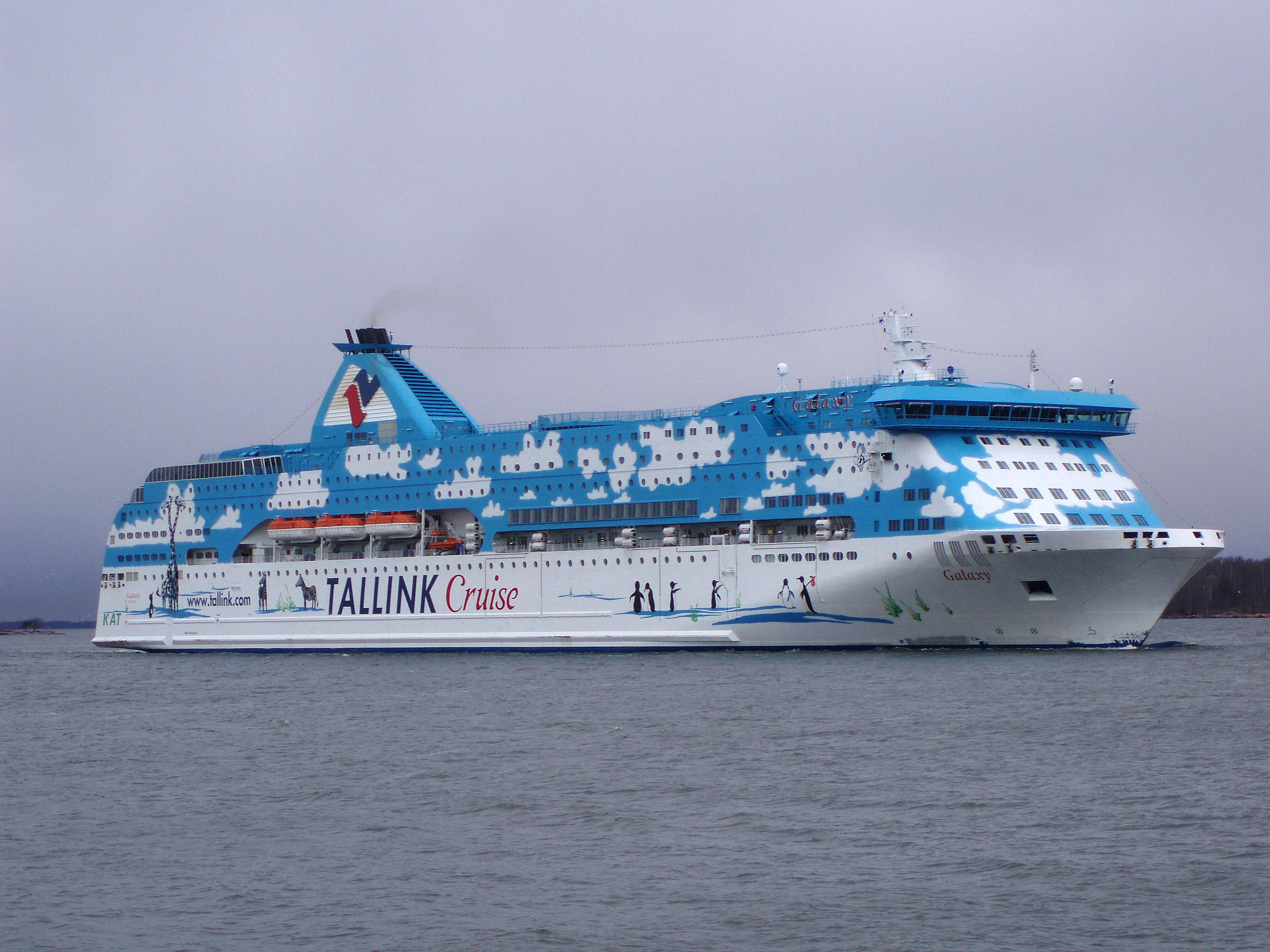 M/S Galaxy arriving at Helsinki West Harbour, 19. April 2007. Picture taken and uploaded by Kalle Id.